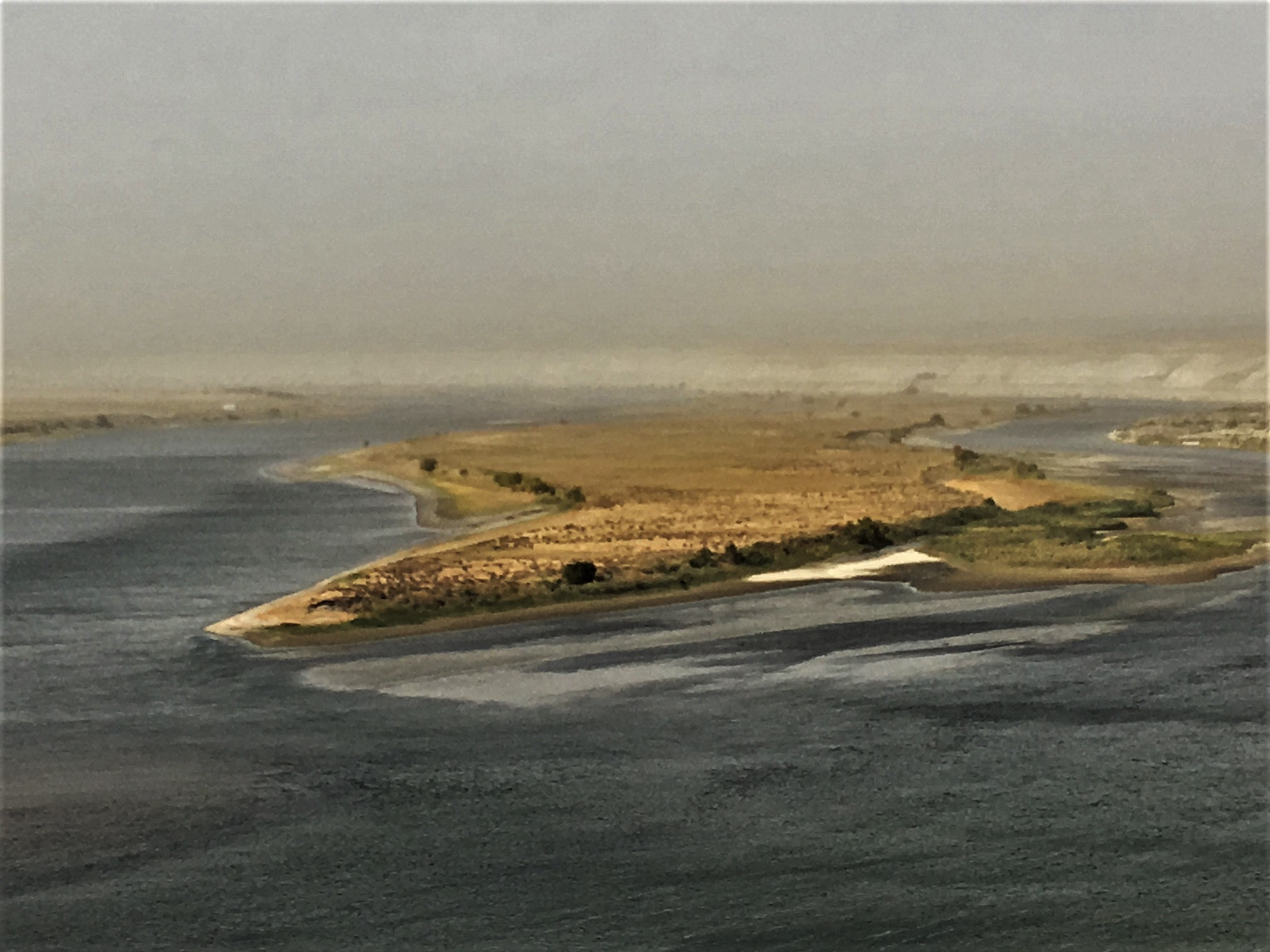 Locke Island Archeological District Telephoto view of Locke Island, with the White Bluffs area of Hanford Reach National Monument in the background.